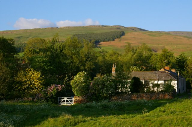 House on Village Green, Melmerby.